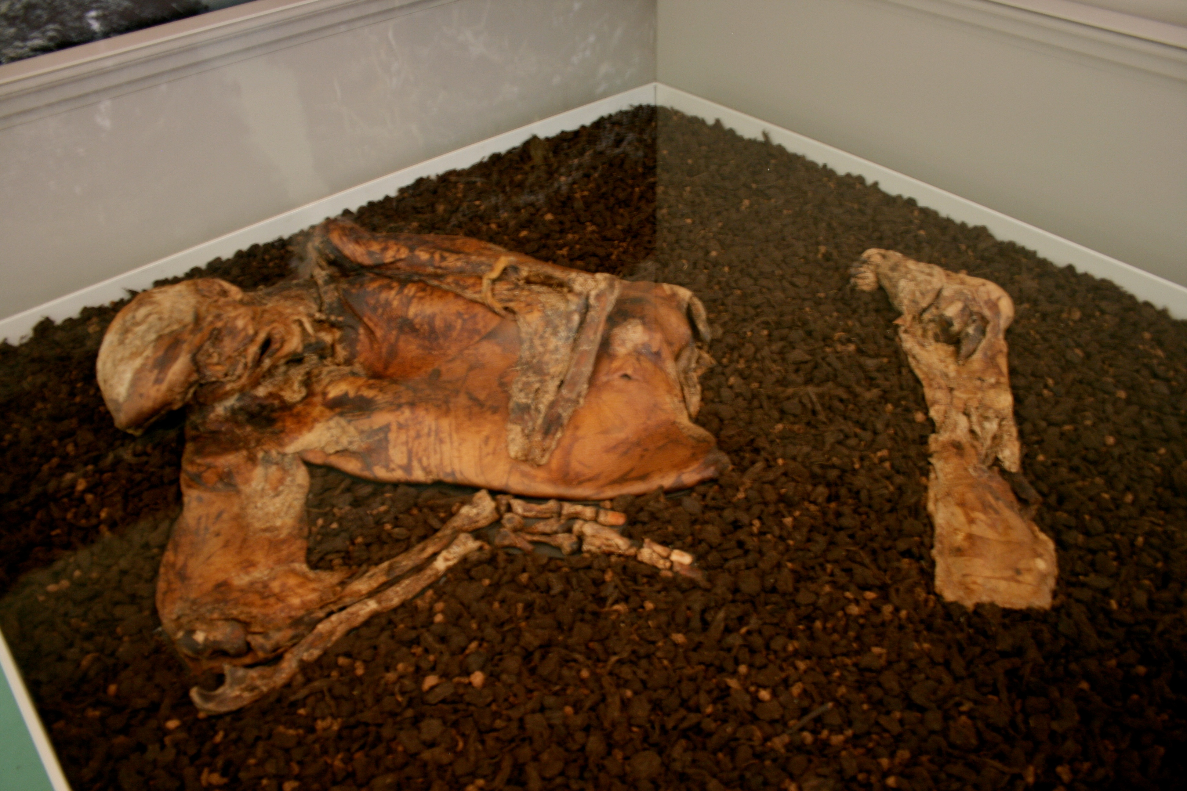 The Lindow Man, taken at the British Museum.